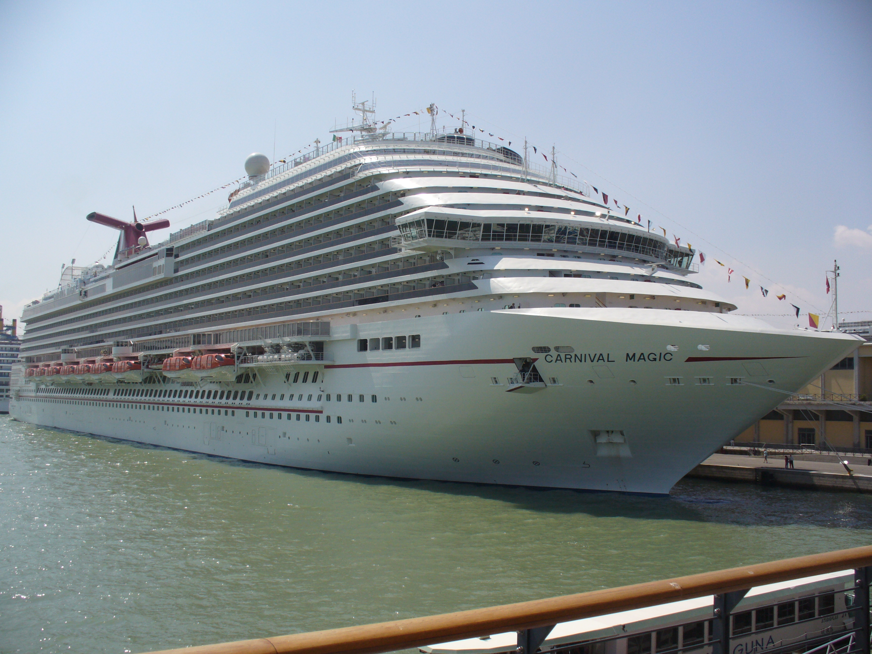 Carnival Magic shortly before entry into the port of Venice